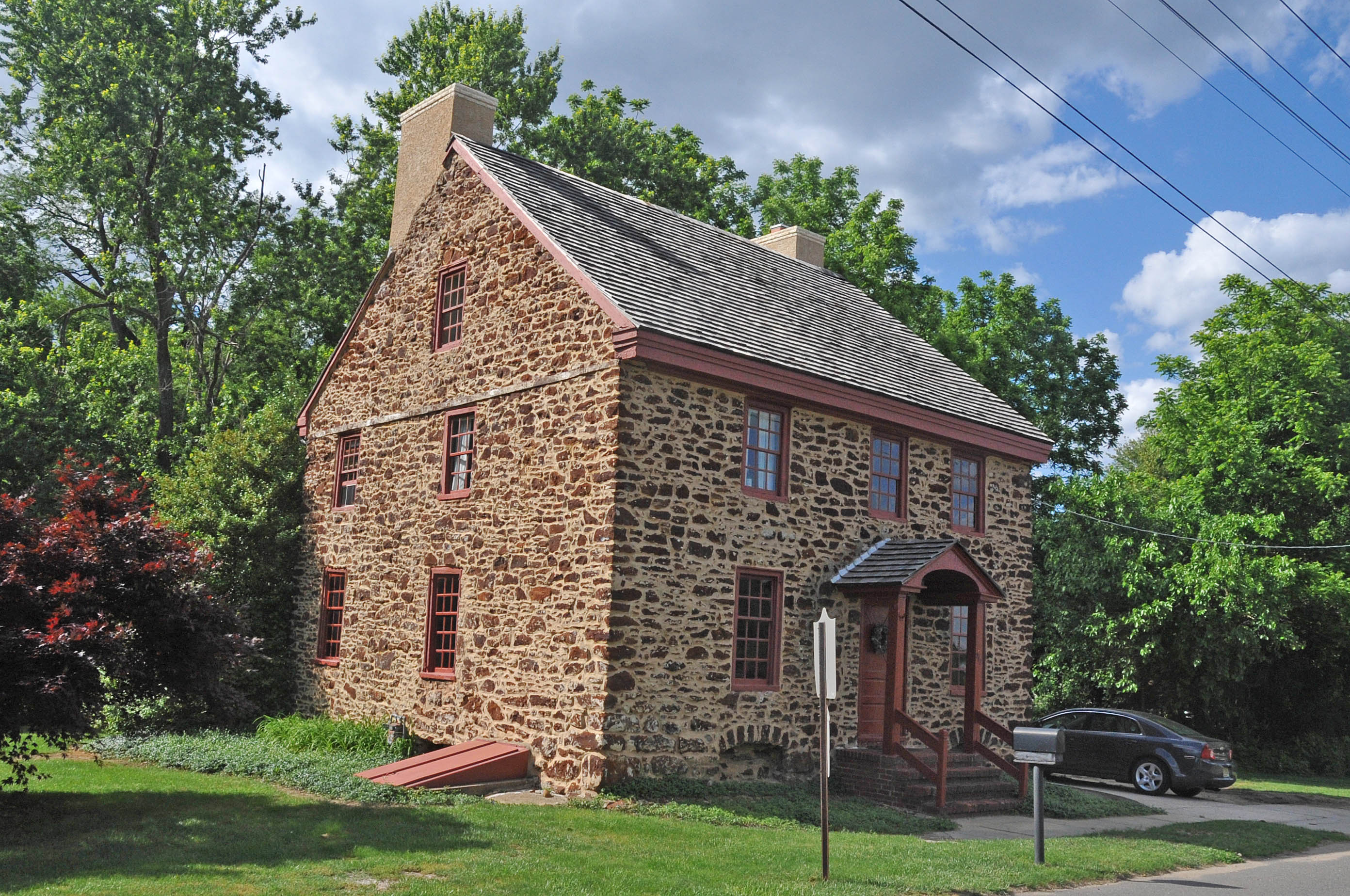 THE INN WAS BUILT IN THE EARLY 1700'S. IT GOT ITS NAME BECAUSE THE HUNTERS OF THE GLOUCESTER FOX HUNTING CLUB (1766 TO 1818) OFTEN GATHERED AT THE INN AFTER THE CHASE. THIS WAS THE FIRST SUCH HUNT CLUB IN AMERICA. DURING THE REVOLUTION IT WAS USED FOR RECRUITING AND AS A MILITARY HEADQUARTERS.